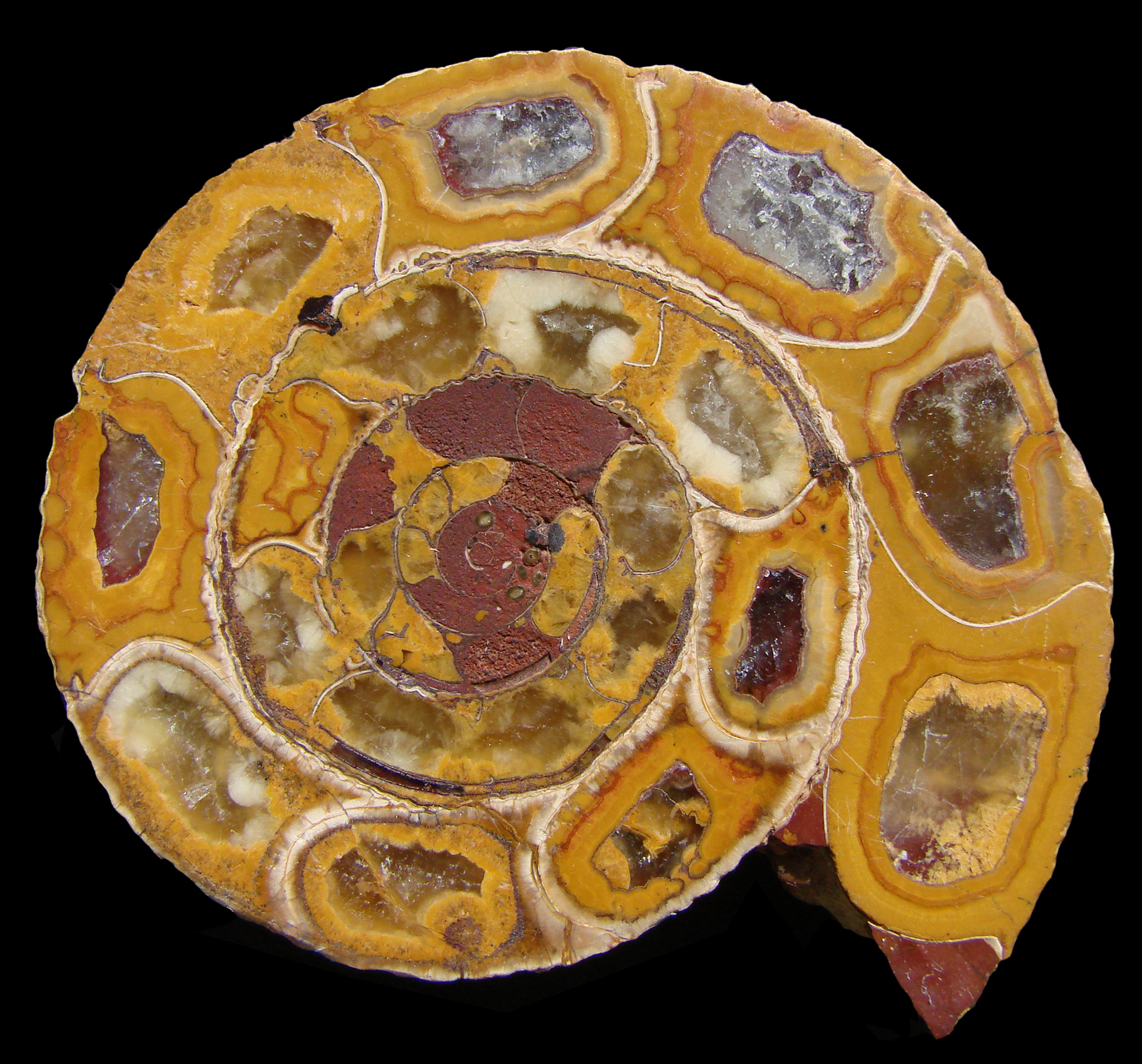 Fossilized ammonite, cut and polished, real length 5,5 cm.